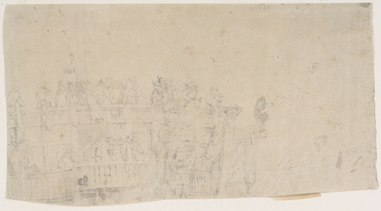 The beakhead bulkhead of the English second-rate 'Charles', 1668 A trimmed drawing showing a close three-quarter view of the beakhead bulkhead (that is, the foremost section) of the Charles – identifiable from the lion figure-head, the top part of which is visible in the lower centre of the page. The forecastle and the ship’s distinctive projecting galleries are crowded with people. The image is an offset that has been worked with graphite overdrawing, and is similar to (though not taken from) the upper right section of PAJ2300. The beakhead bulkhead of the English second-rate 'Charles', 1668 Additional notes: Charles was renamed HMS St George in 1687 and reclassified as a second rate in 1691. In 1699–1701 she was rebuilt at Portsmouth Dockyard as a 90-gun second rate.[1] Willem van de Velde the Elder (died 13 December 1693)